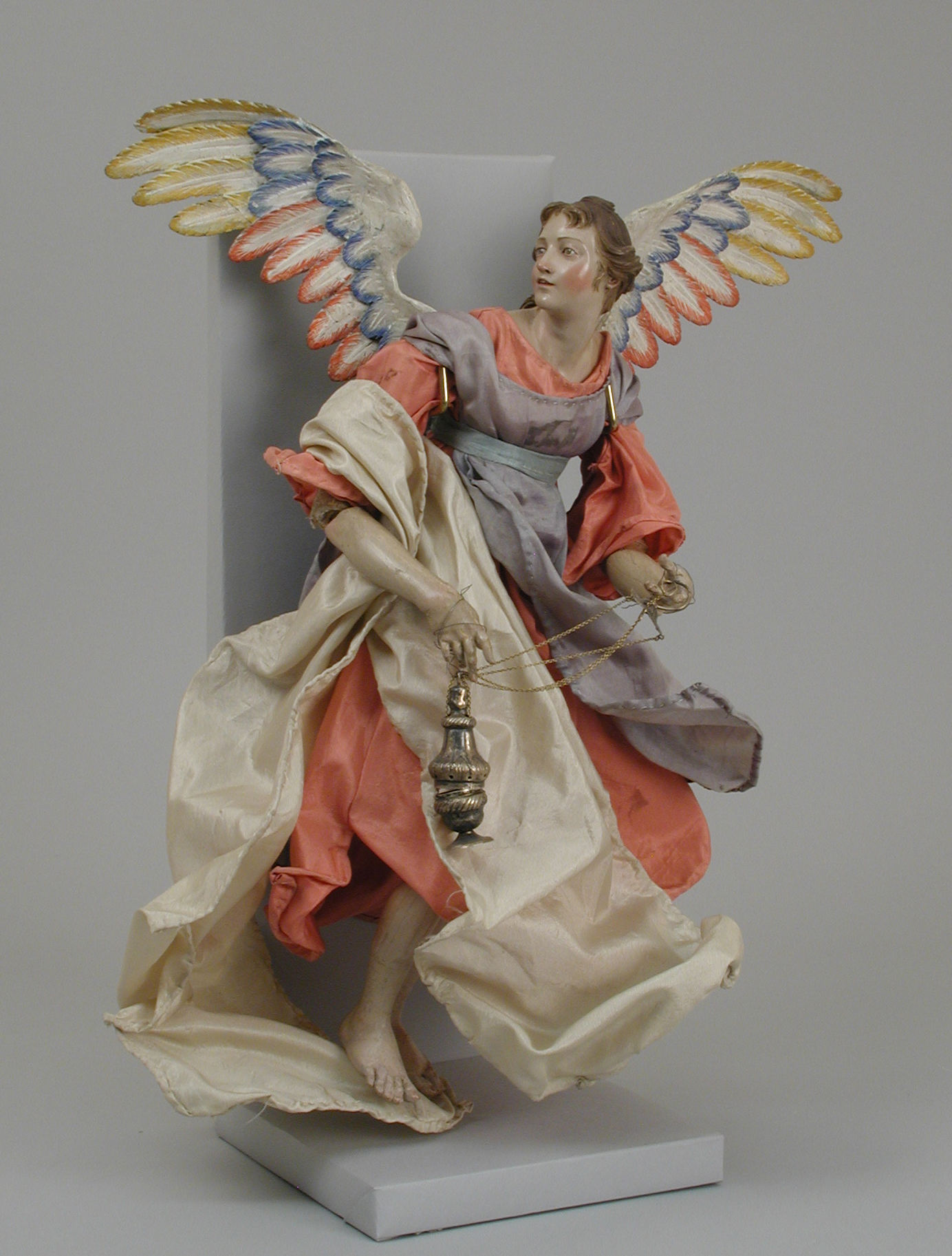 Italian, Naples; Crèche figure; Crèche